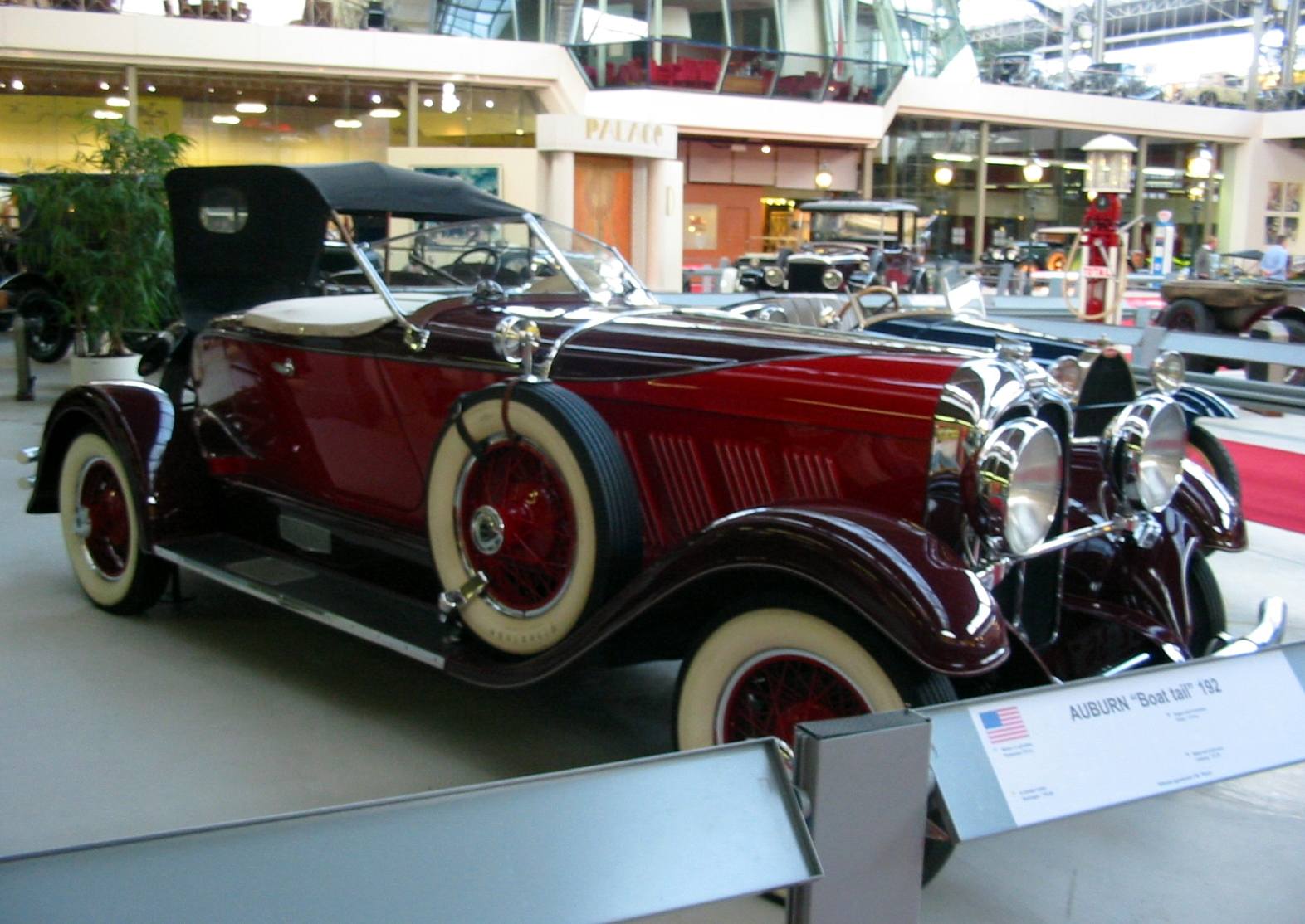 1929 Auburn 8-120 Boattail Speedster